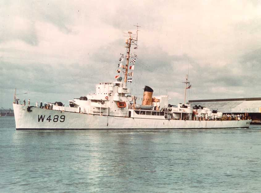 The U.S. Coast Guard buoy Cutter USCGC Durant (WDE-489) in port, circa in 1953.